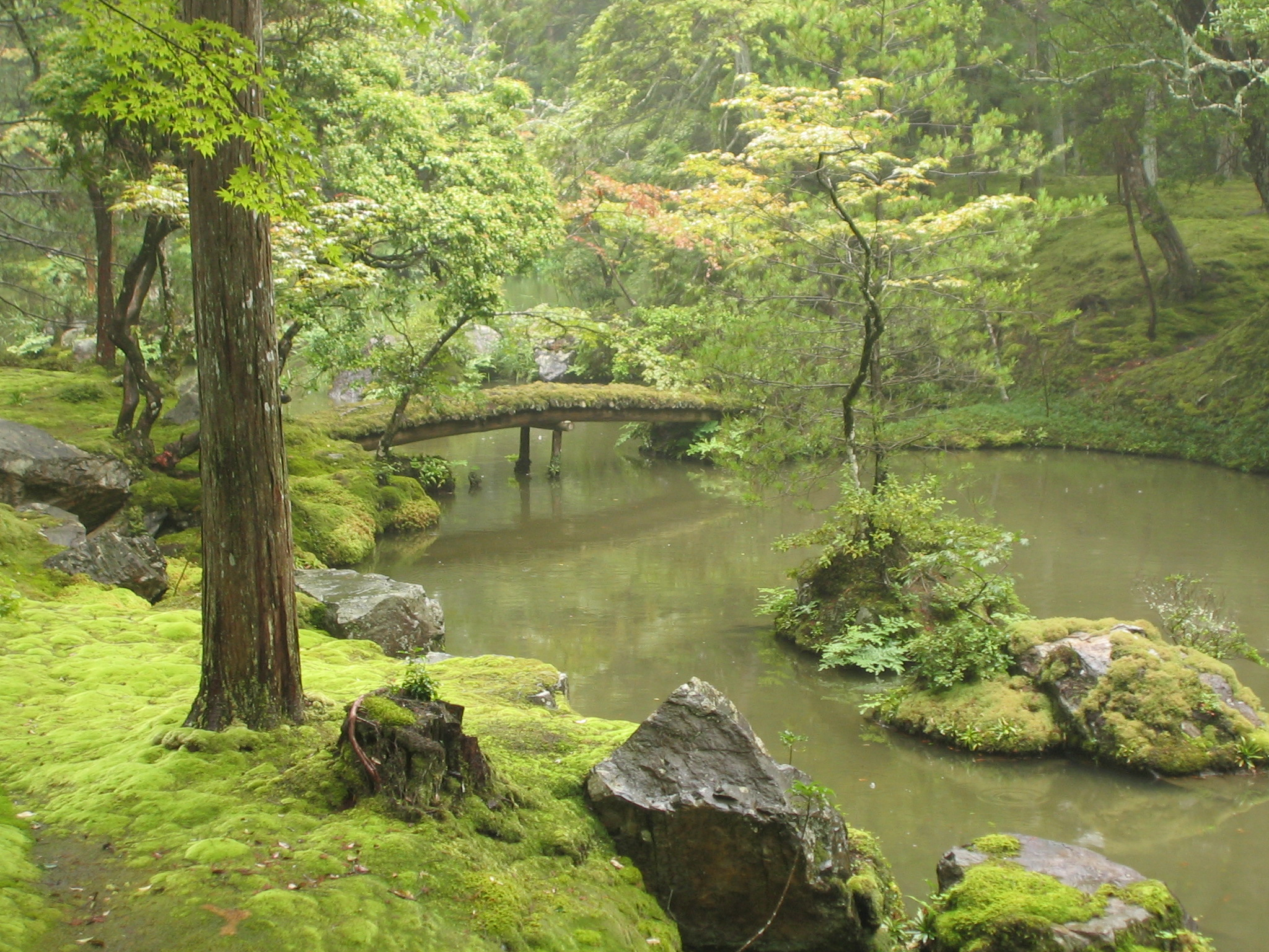 The Saihouji kokedera pond taken during holidays trip